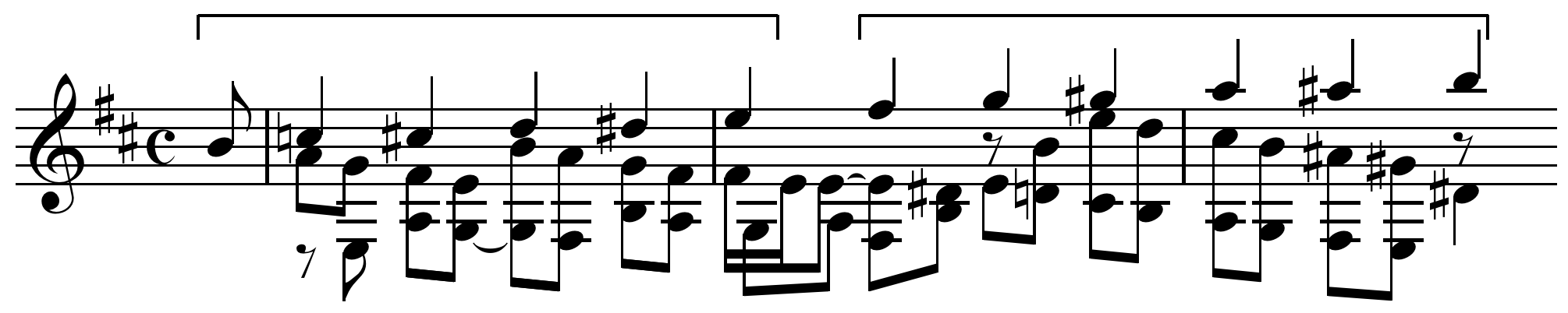 Successive (non-overlapping, skips F♮) chromatic hexachords in John Dowland.